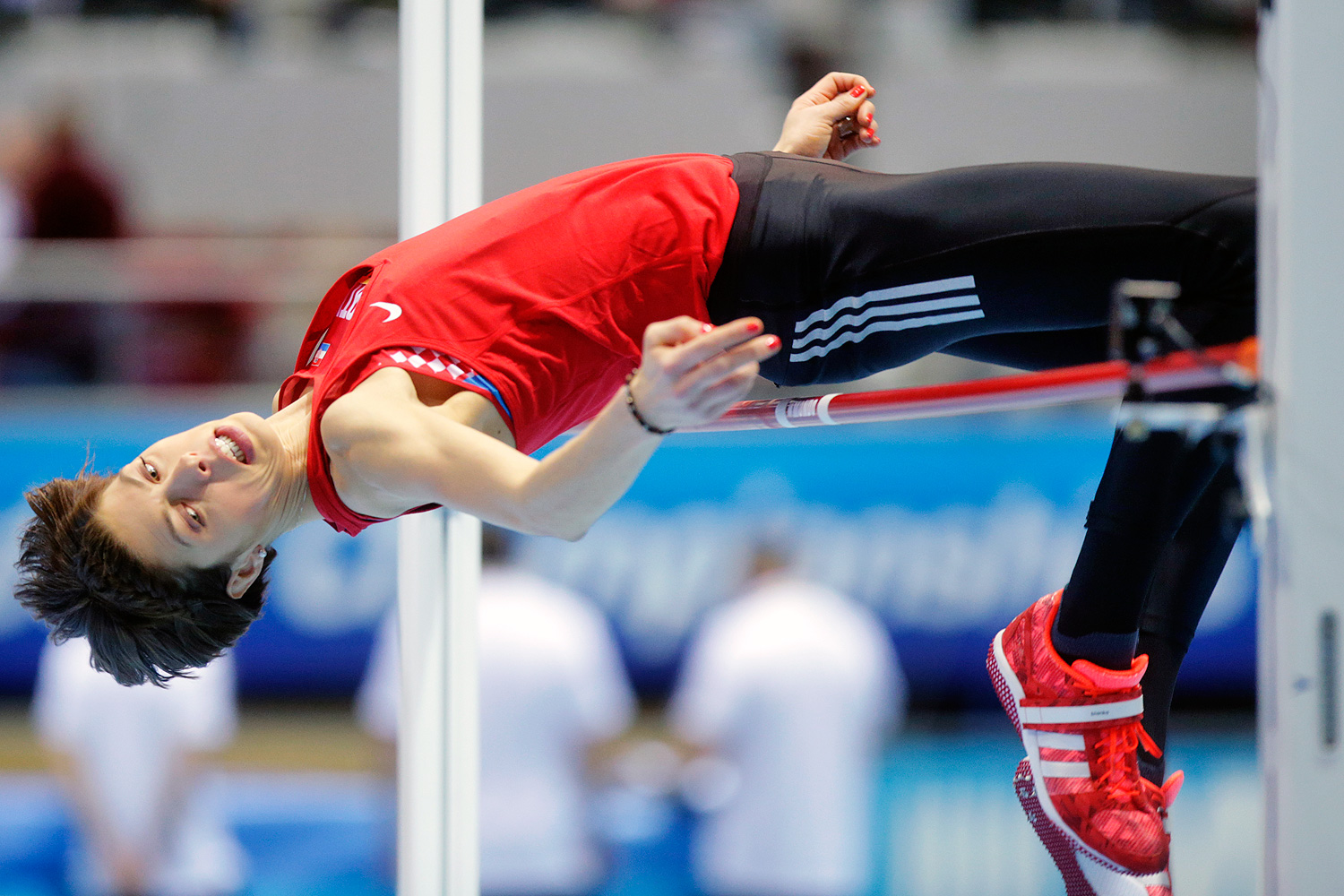 Blanka Vlasic in 2014 IAAF World Indoor Championships